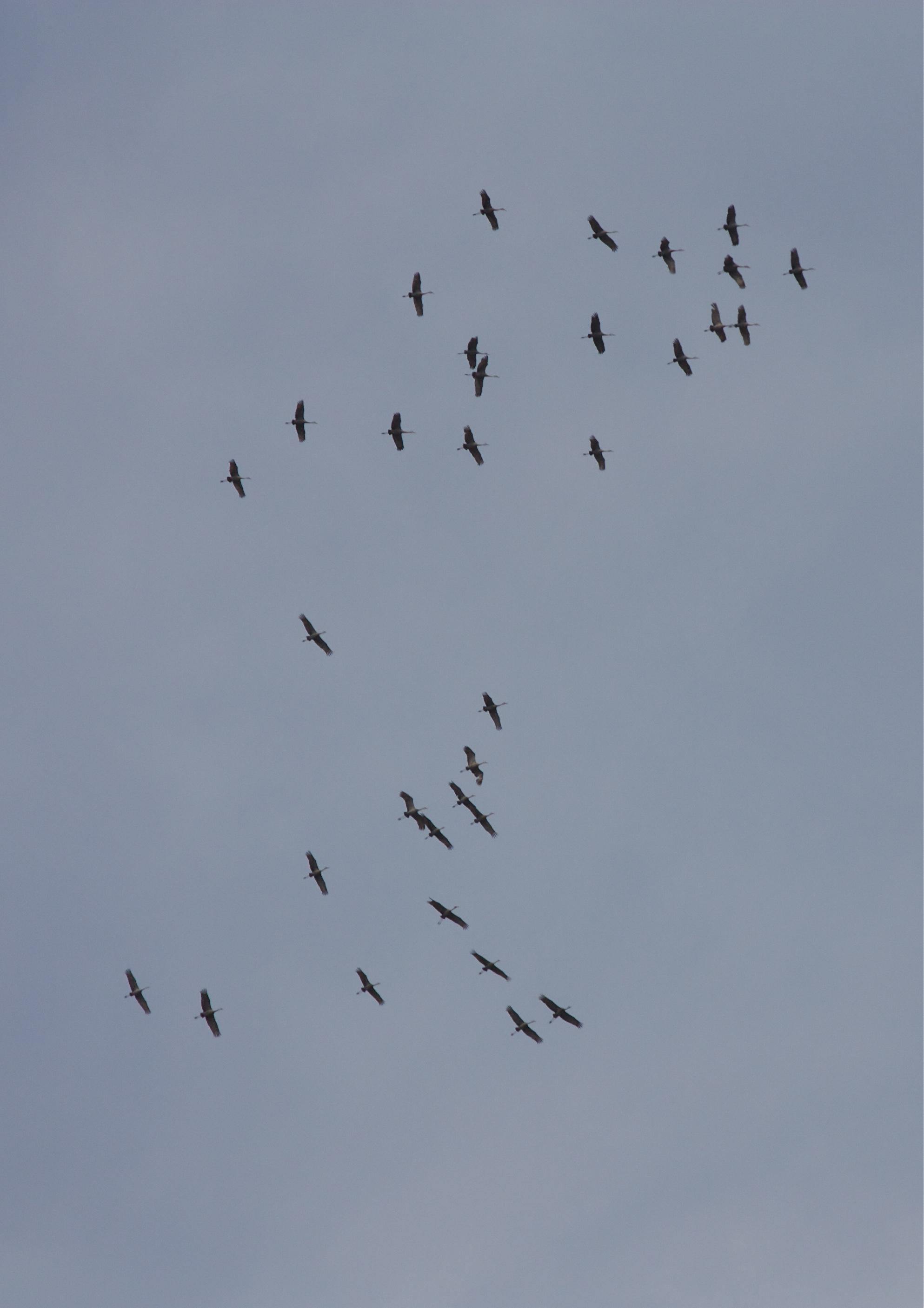 Just passing over, headed for parts north.